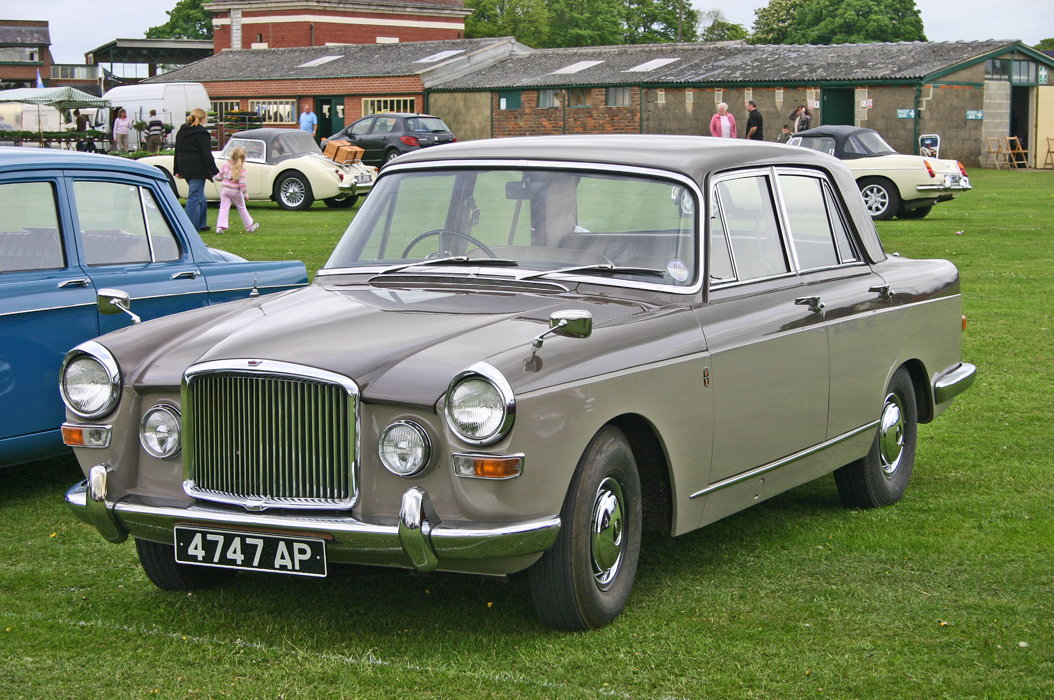 'Modernised' front of the Princess 4-litre R.